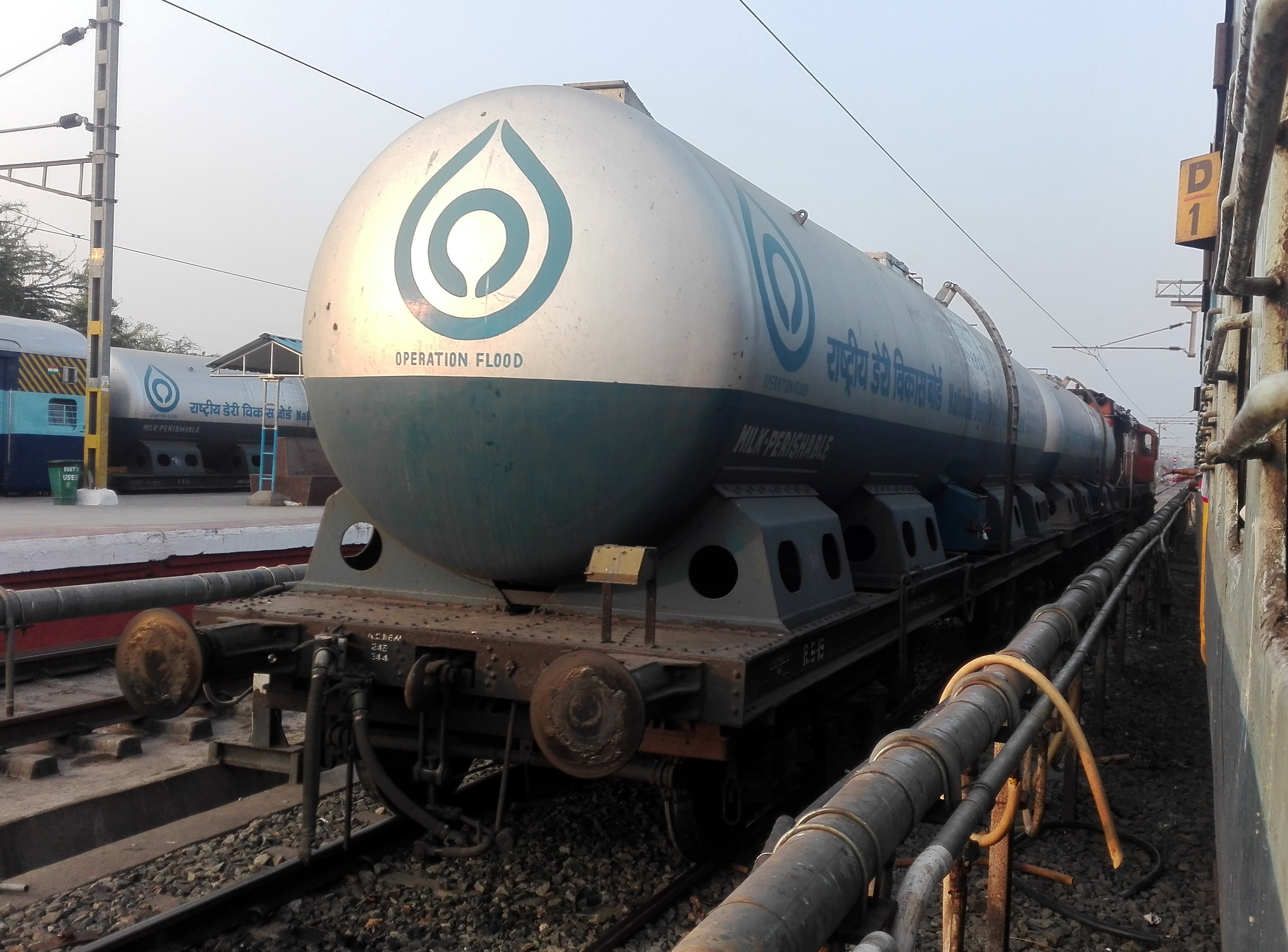 A Railway Milk wagon spotted at Renigunta Junction, Andhra Pradesh